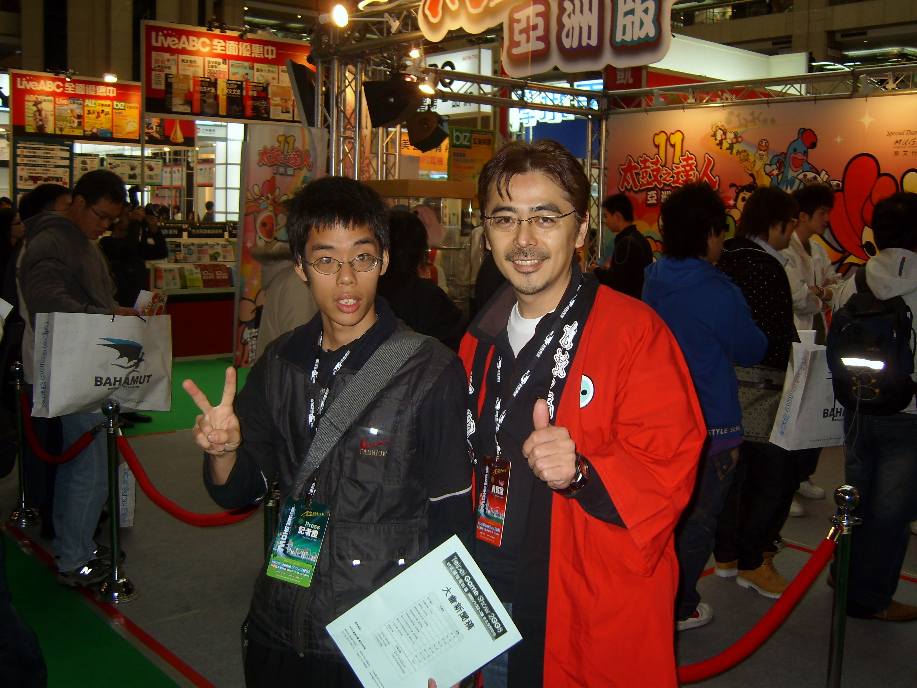 2008 Taipei Game Show: An interview to Tatsuhisa Yabushita (right) by Rico Shen (left).中文（台灣）: 2008台北國際電玩展：遊戲軟體《太鼓之達人》系列製作人藪下達久（右）接受維基新聞記者Rico Shen（左）的訪問。